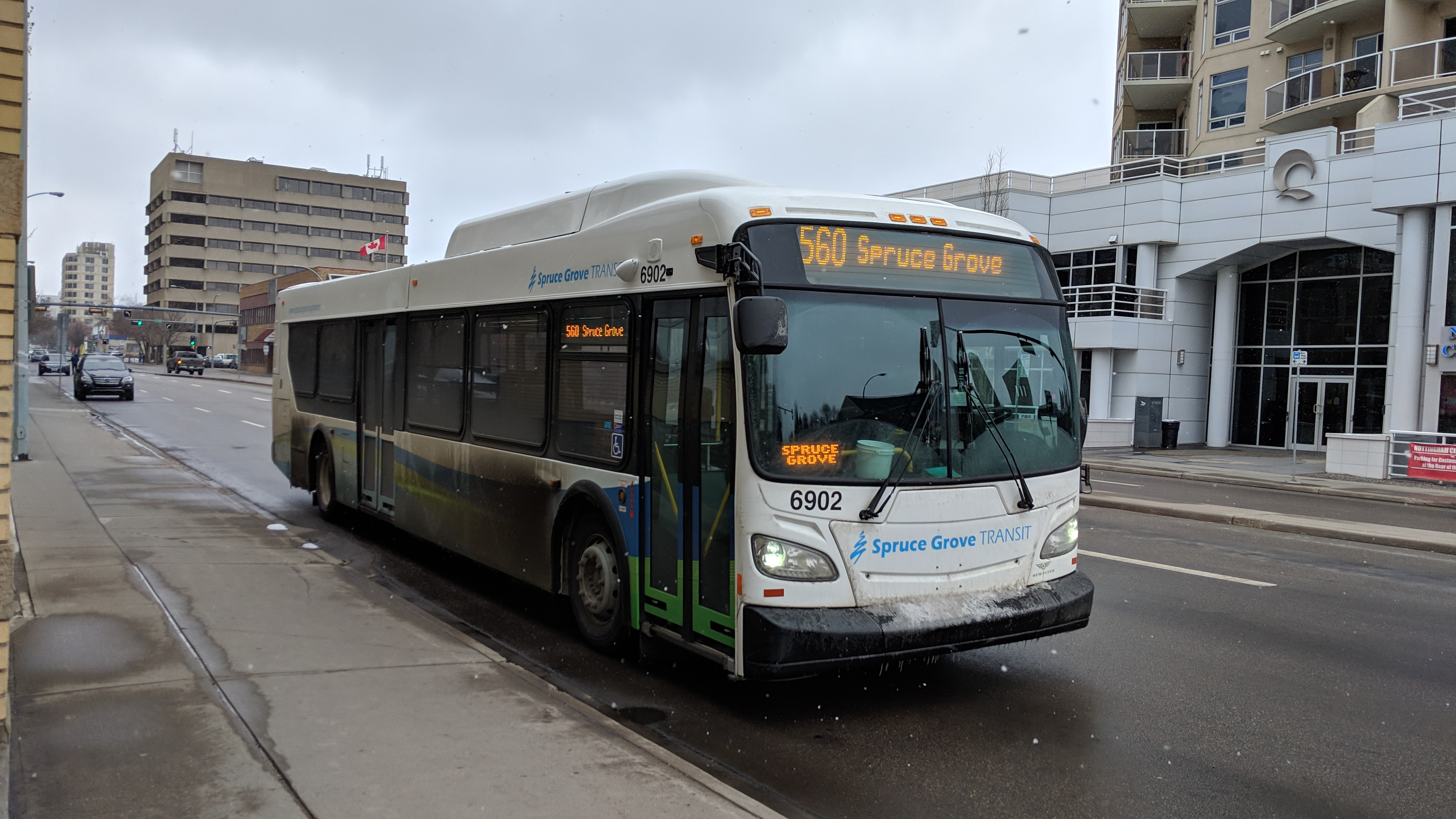 Spruce Grove Transit bus 6902 (a New Flyer XD40) on route 560 with destination "Spruce Grove", on 105 Street northbound approaching 104 Avenue in Edmonton. While marked "Spruce Grove Transit", the bus is operated by Edmonton Transit. Unlike other XD40s operated by Edmonton Transit, 6902 does not have a bike rack on the front and the windows do not open. Taken during light snowfall.